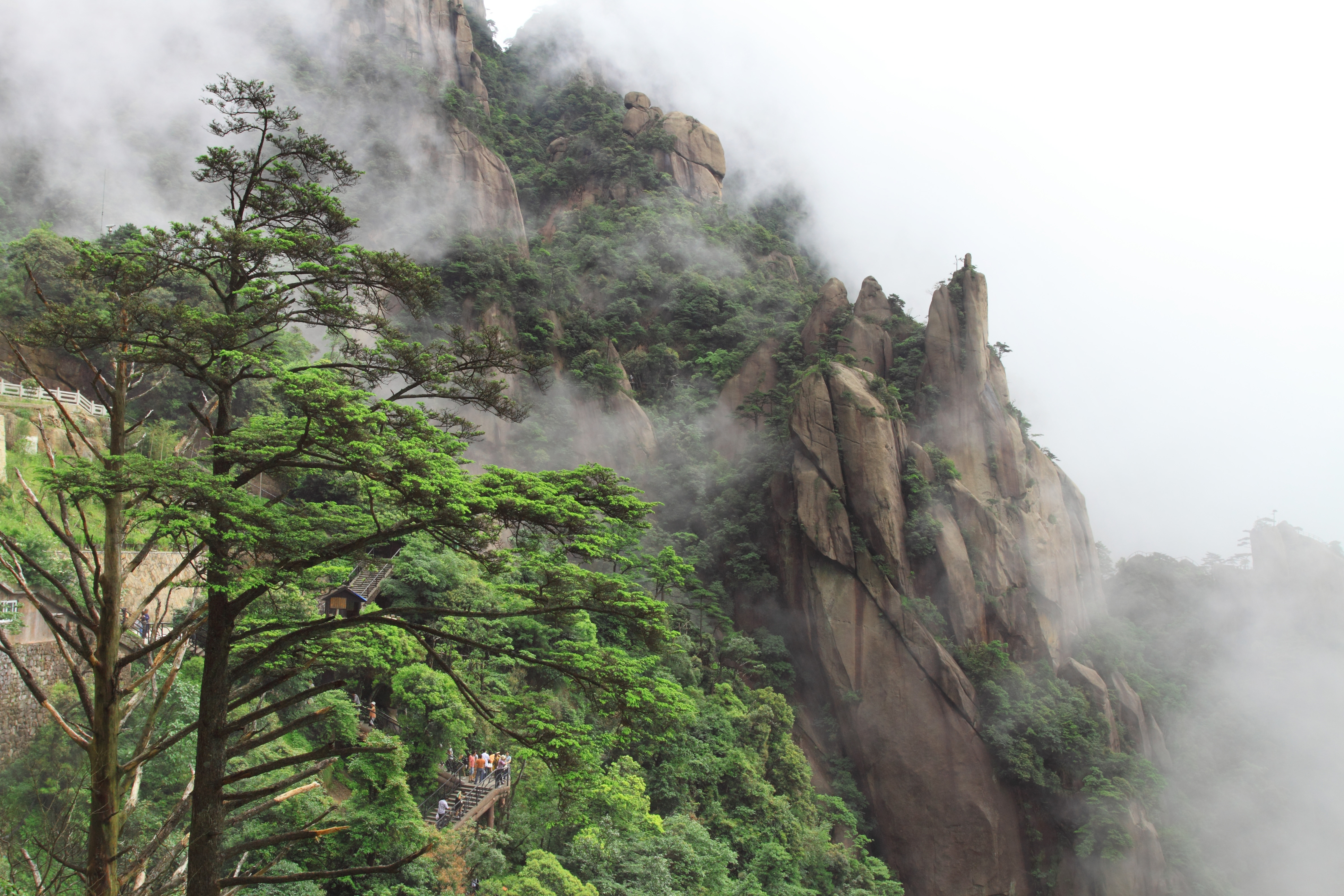 Tsuga chinensis, Sanqing Shan, Jiangxi, China